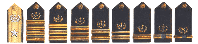 These are the shoulder boards that were worn by United States Maritime Service officers.